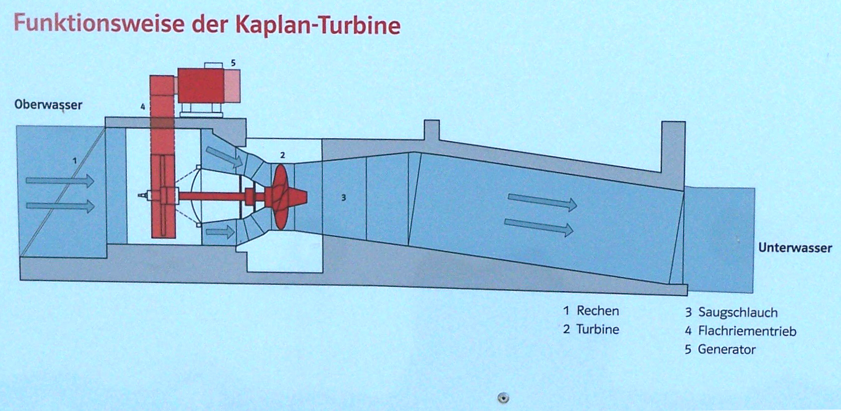 Drawing of a horizontal KAPLAN-Turbine.